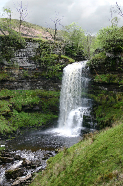 Uldale Force, River Rawthey, Cumbria Remote and inaccessible, "back o' Baugh Fell", one of the hidden gems of the National Park